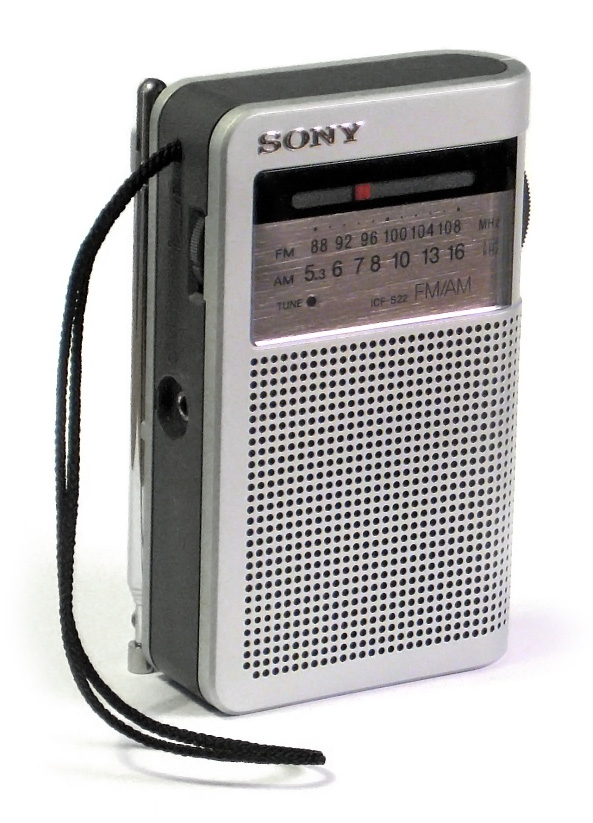 Sony ICF-S22 FM AM Pocket Radio as sold in the United Kingdom. (This one was bought in 2006, but as of 2013 this model is still on sale, as I recently bought an identical replacement.)